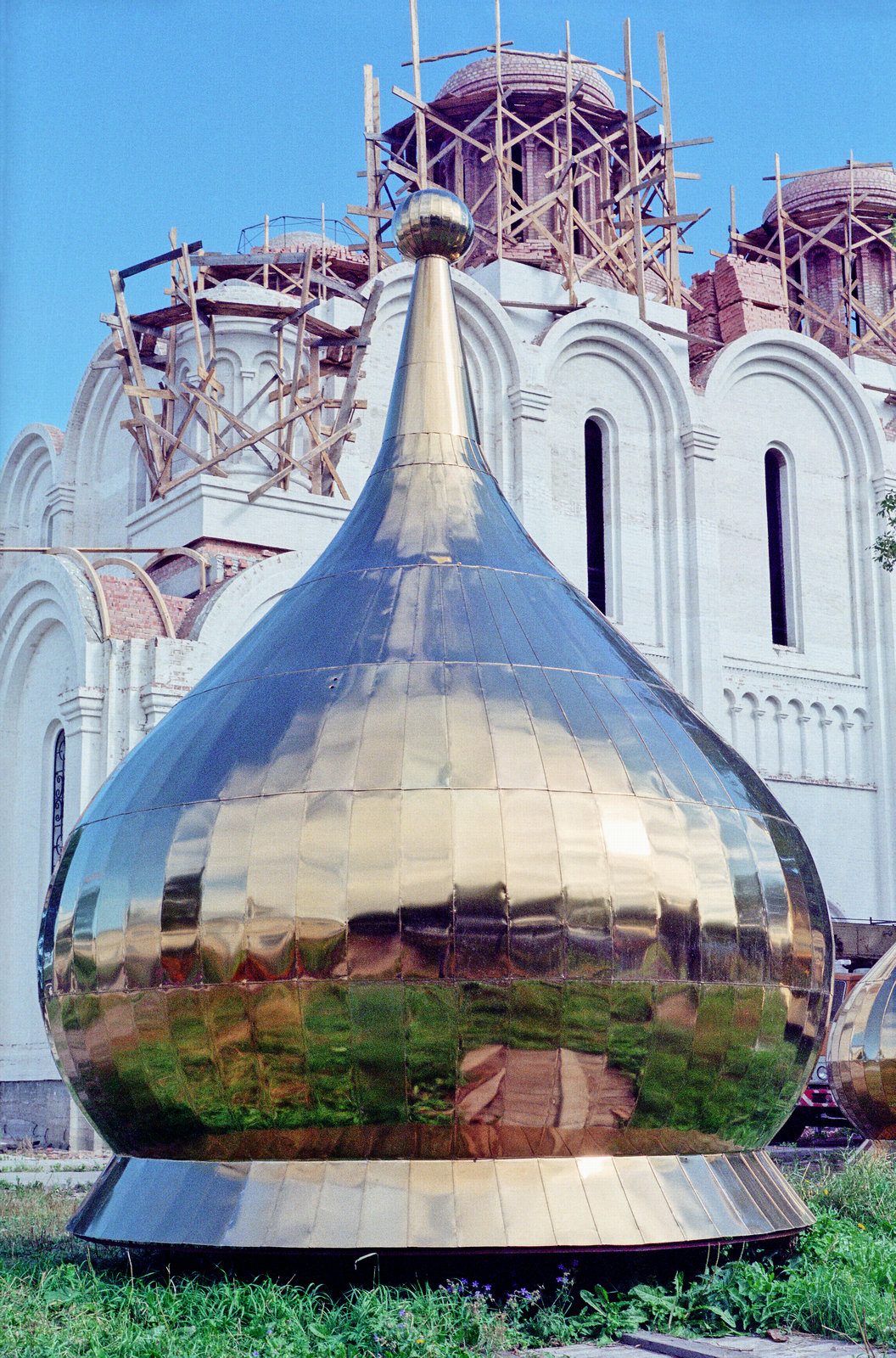 Nikolsky cathedral of Nikolsky monastery in Pereslavl.